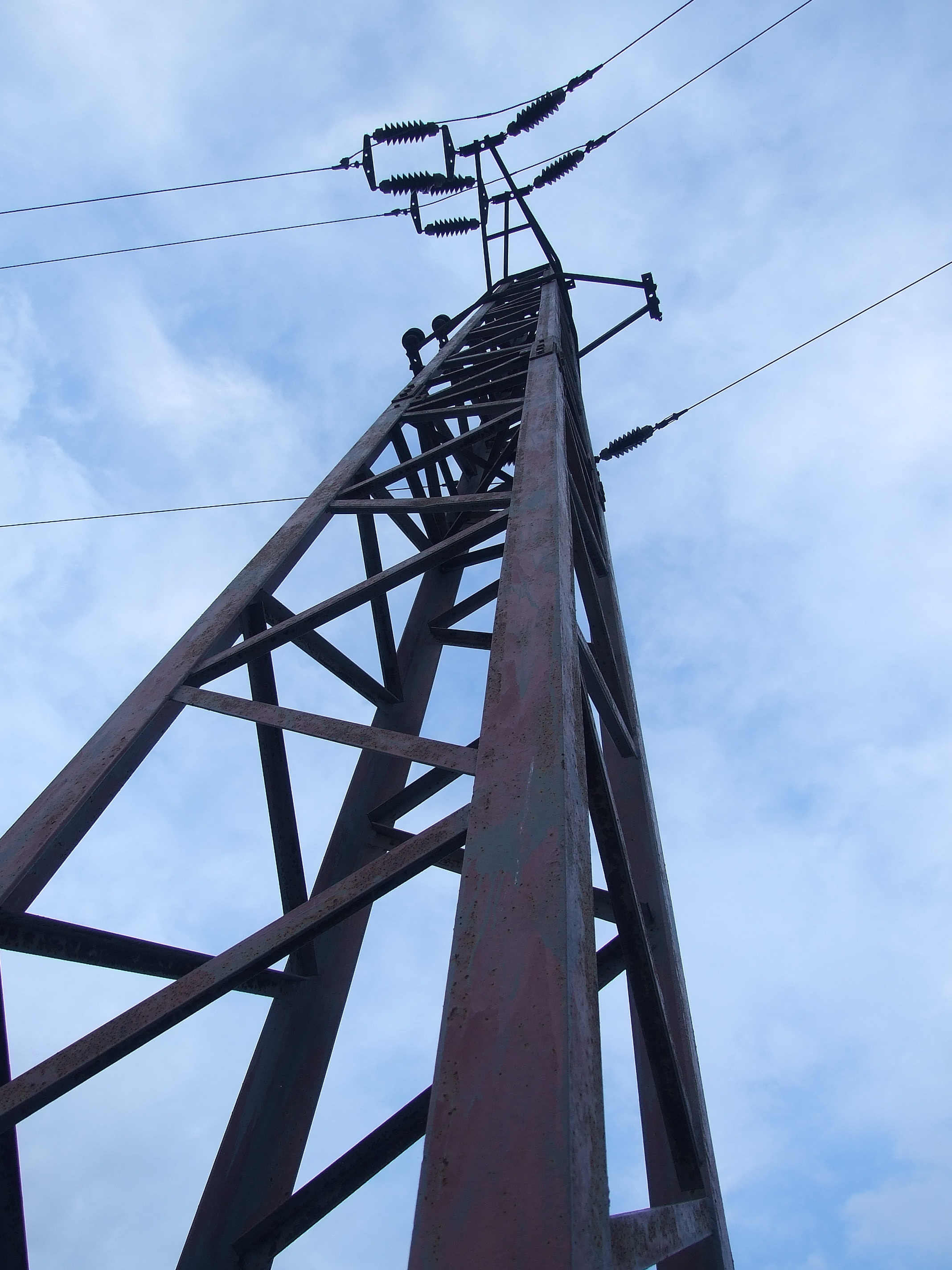 Electrical pole, high voltage